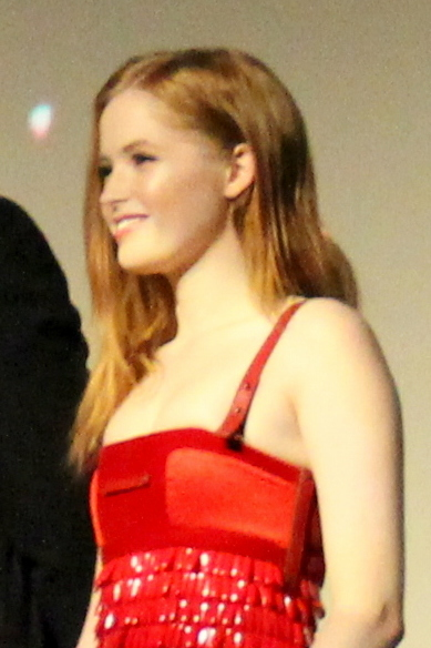 Tom Ford, Amy Adams, Aaron Taylor-Johnson, Armie Hammer, Ellie Bamber